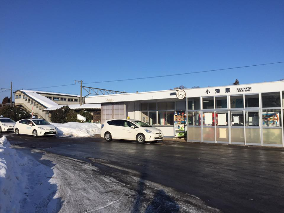 Kominato Station in Hiranai, Aomori. 8 February 2018